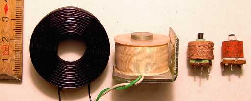 From left: Air core inductor from loudspeaker crossover network. Solenoid with iron core. Adjustable high-frequency inductor (adjustable via ferrite core) for radio. Another radio-frequency inductor with hollow ferrite core on the outside.